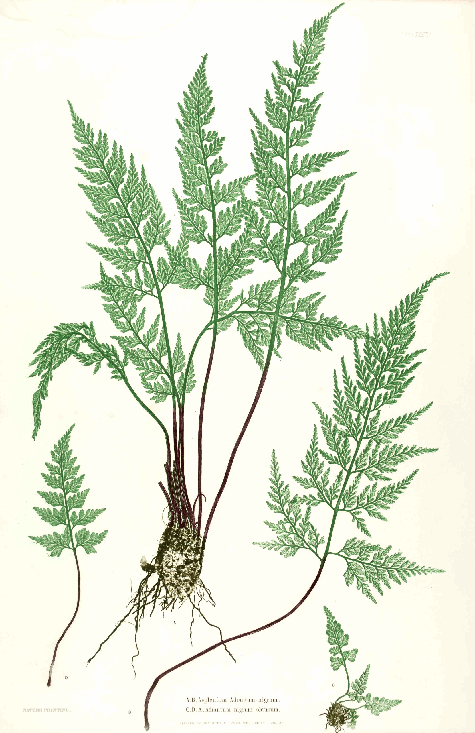 Plate from book